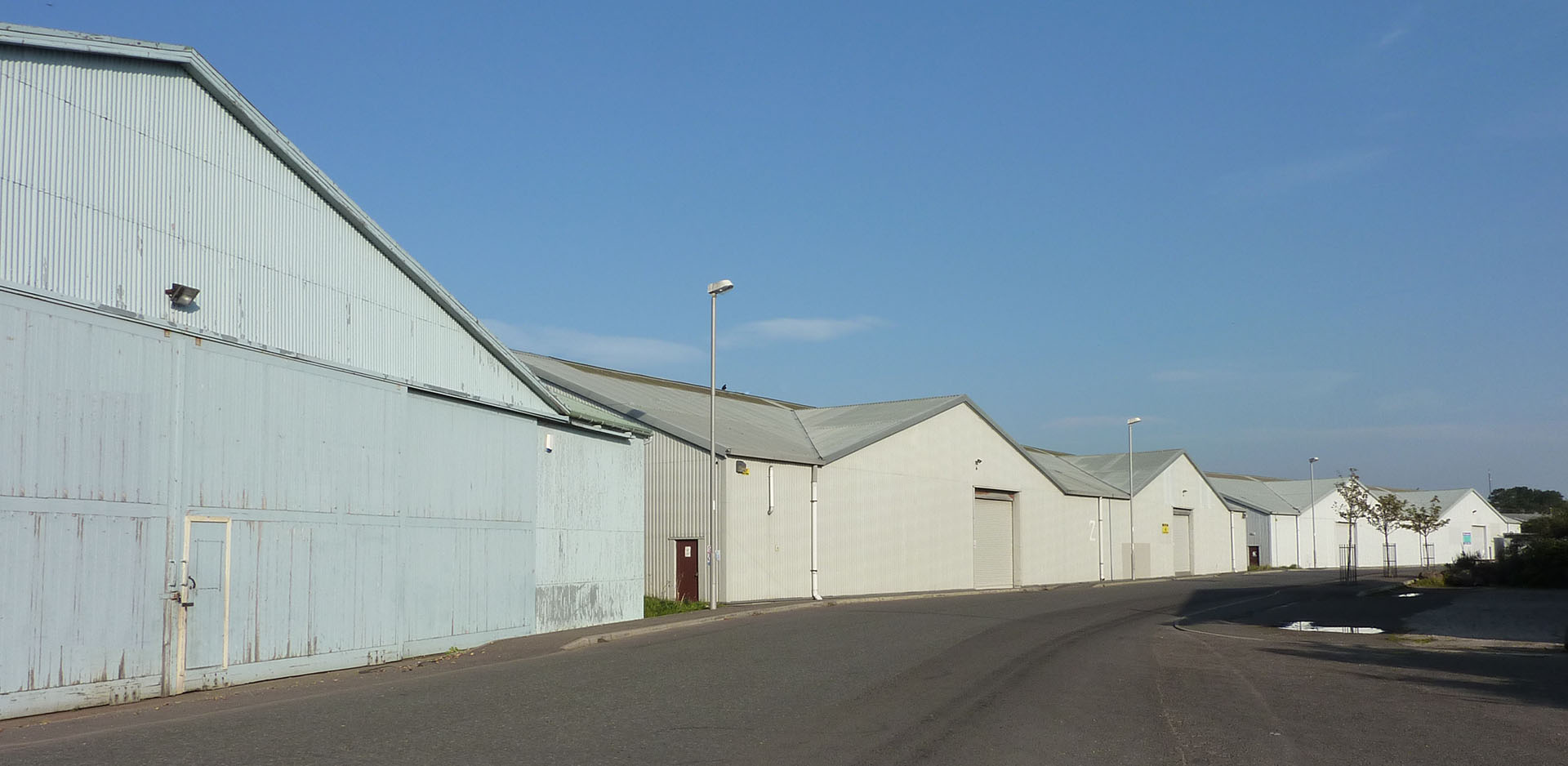 Burkes Sheds built in December 1913 and probably the oldest military hangars of their type in the world.